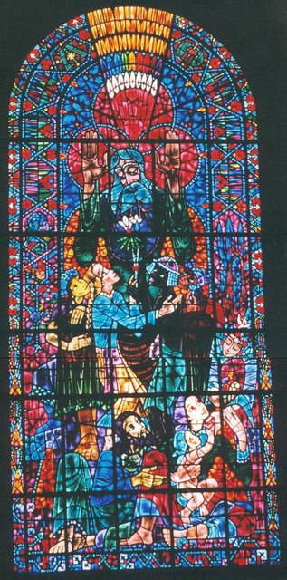 Ervin Bossanyi at Canterbury Cathedral (2). Two large windows by Ervin Bossanyi face south in the Cathedral's south transept, close to one by the Arts & Crafts master Christopher Whall. This one is apparently called "Peace". View the other window:1381091